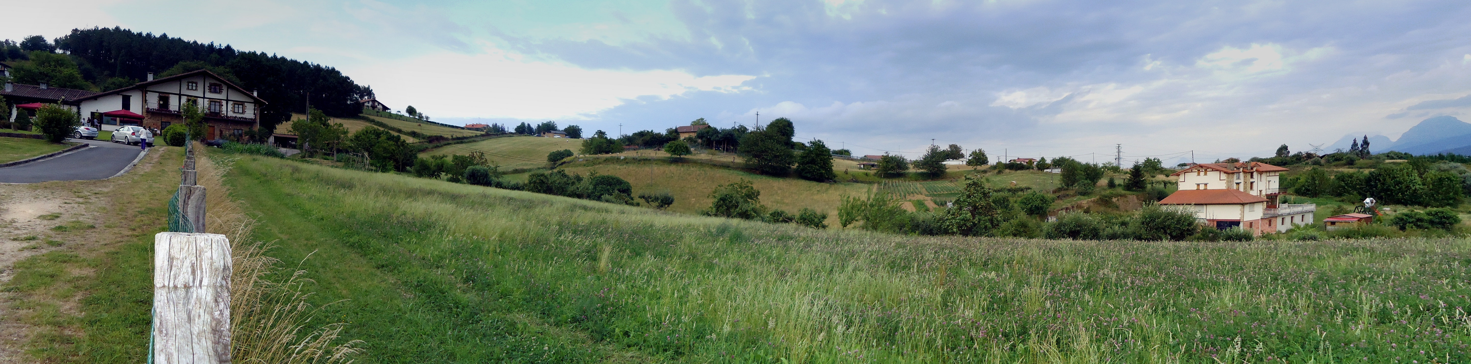 Boroa restaurant and surroundings in Boroa neighbourhood (Amorebieta-Etxano, Biscay, Basque Country)